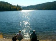 Trinity Lake reservoir scene — in Whiskeytown–Shasta–Trinity National Recreation Area. Located in Trinity County, Shasta-Trinity National Forest, northern California.